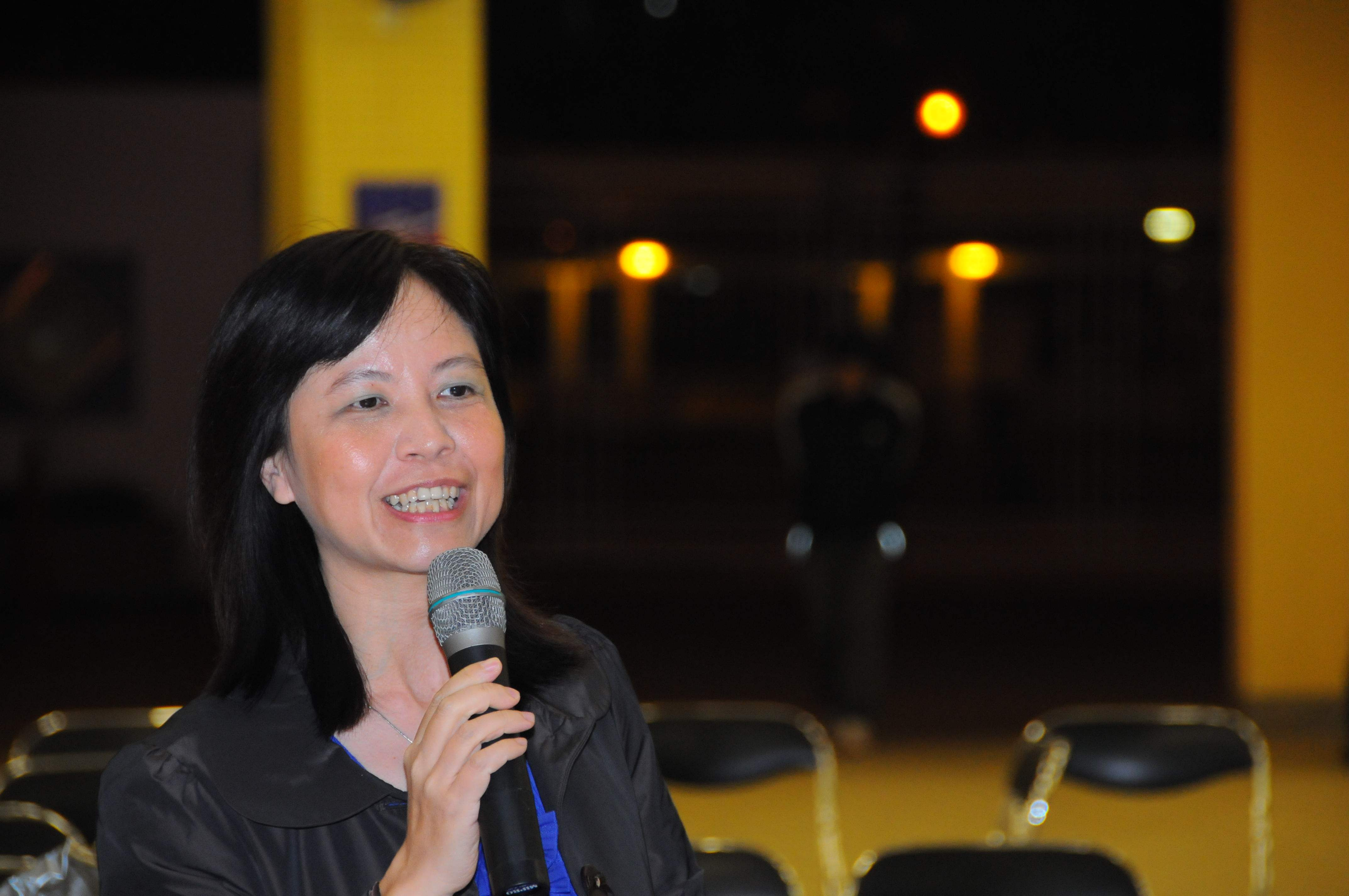 Miss Chan Mei Hing, headmistress of Bishop Paschang Catholic School